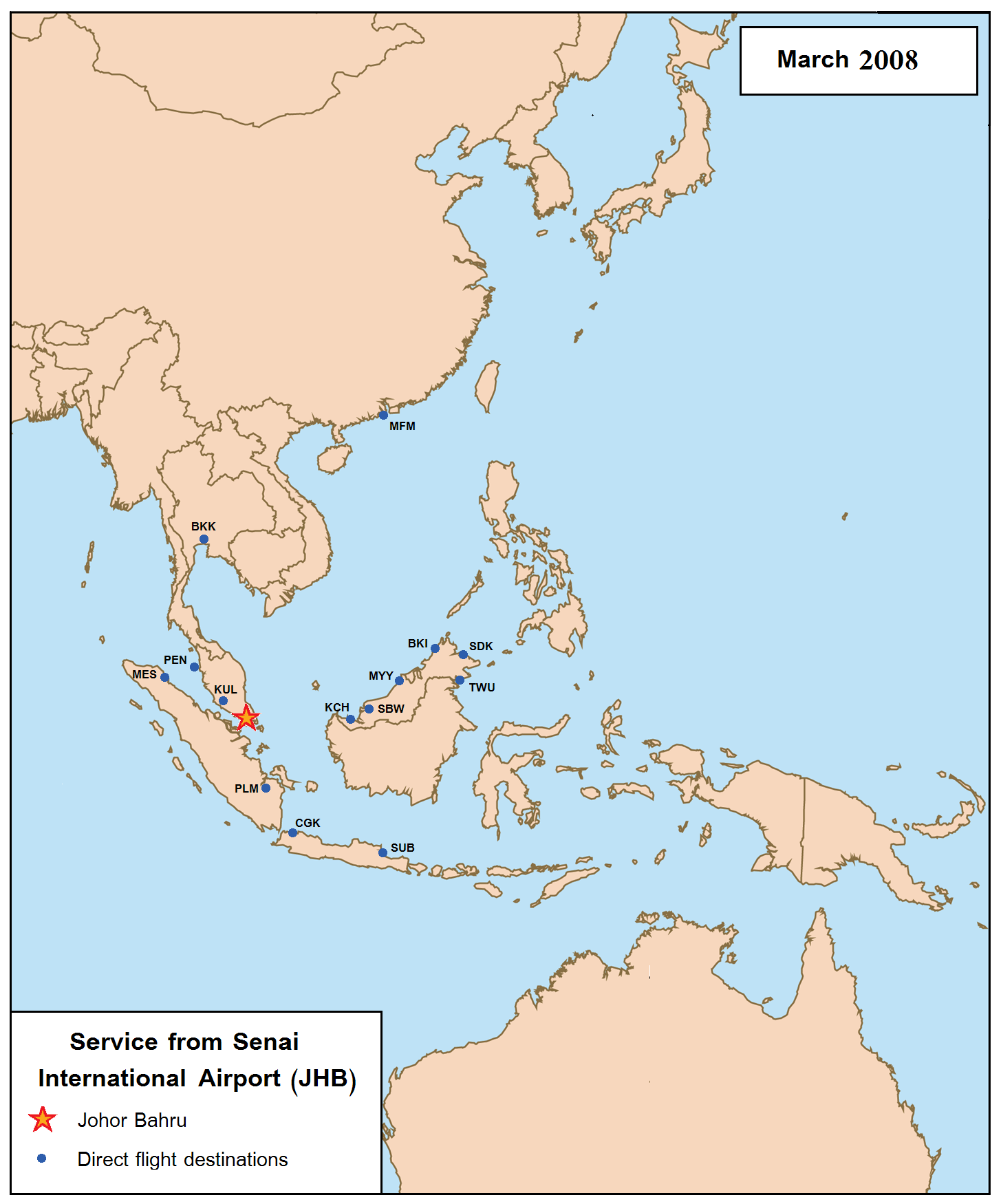 Route map of Senai International Airport of Johor Bahru.